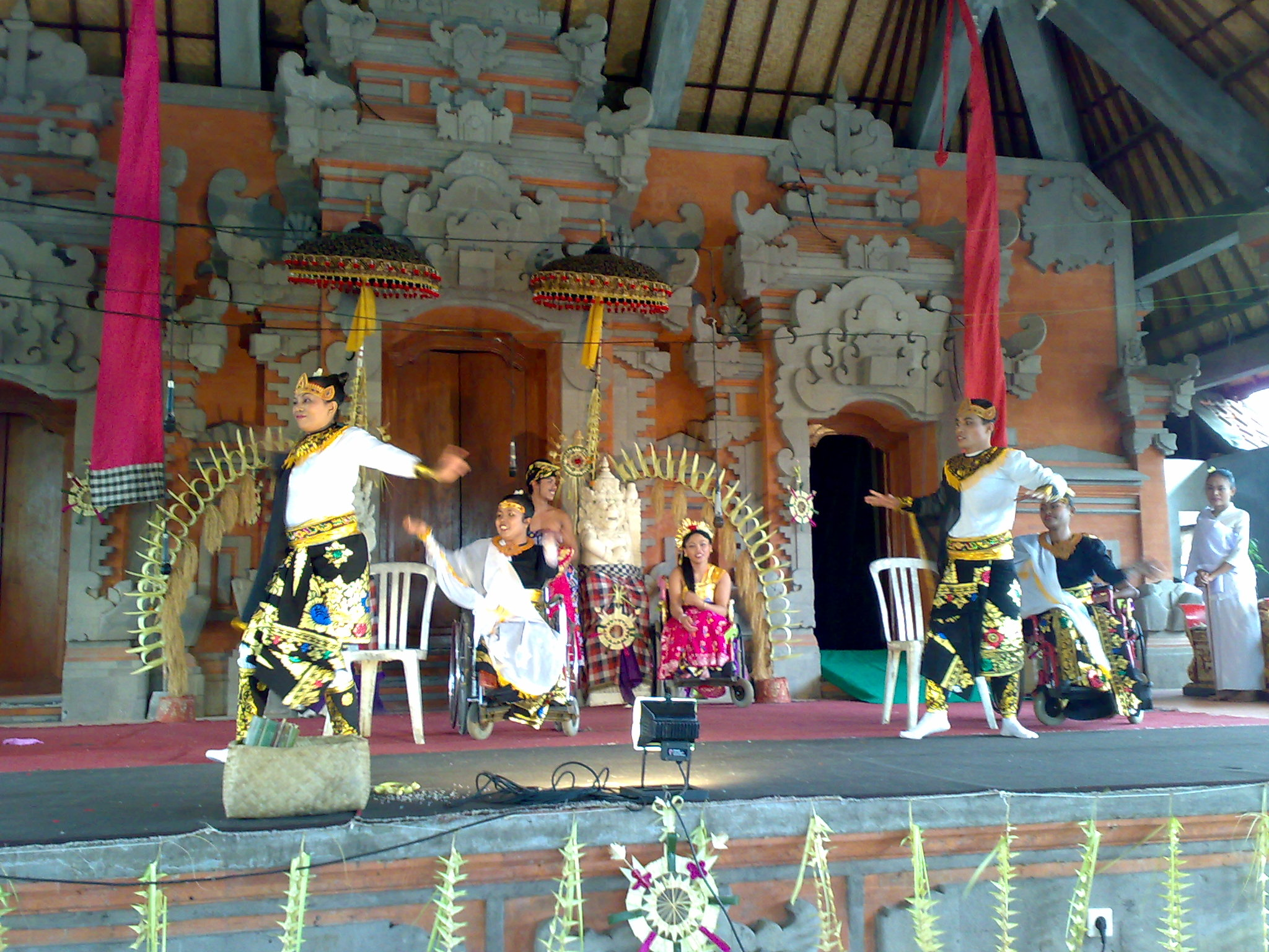 Members of the Senang Hati Foundation performing Diah Larasati A Drama & Dance Performance in Ubud, Bali. This is 'The Wheelchair Dance. Theme is "An Information & Dissemination Campaign for ‘Sekolah Inklusi’ (PWDs rights to attend regular school)" PWD=Persons With Disabilities. These details from a hand-out at the event